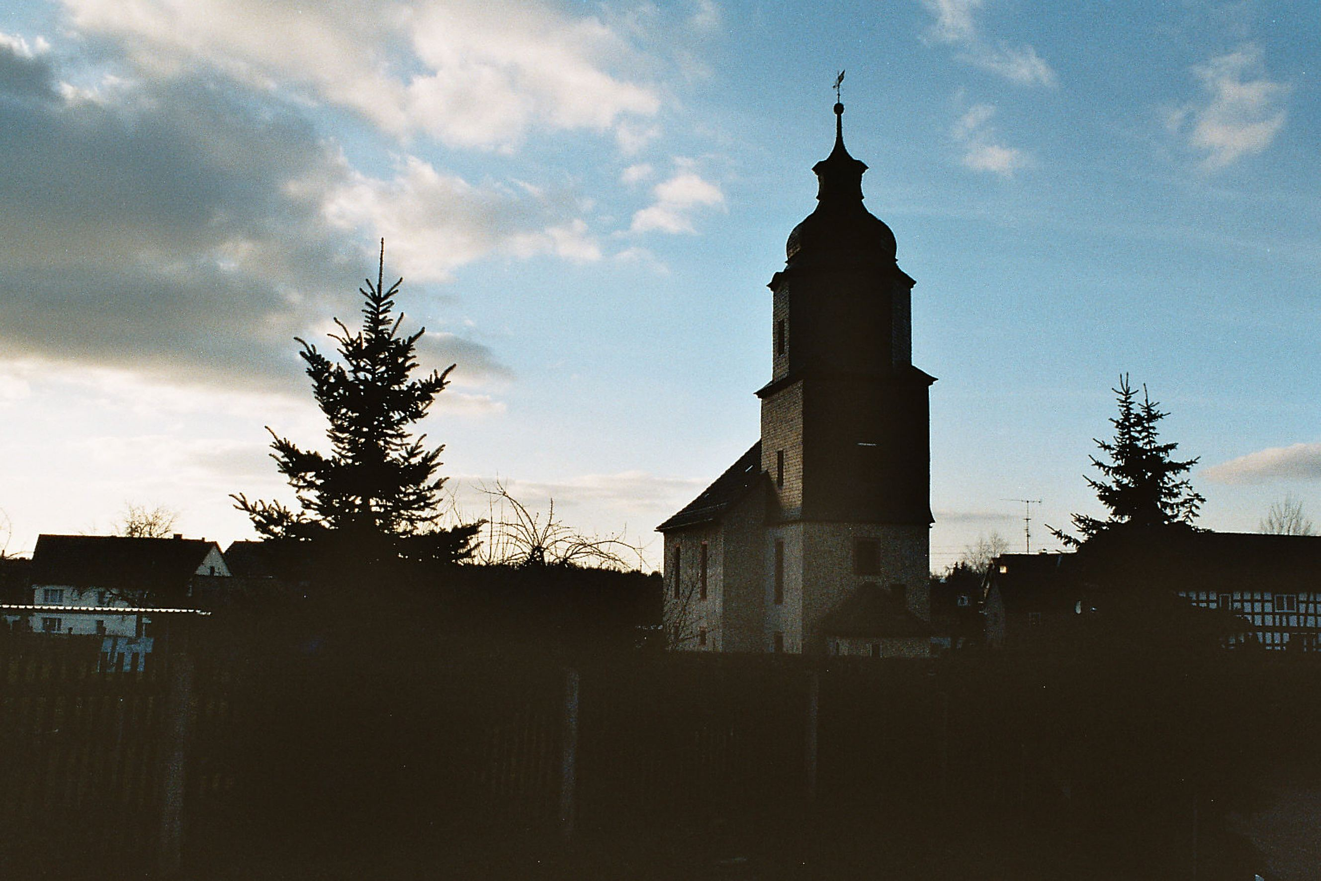 The village church